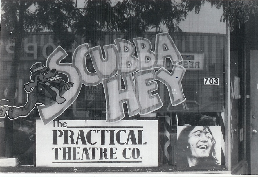 The John Lennon Auditorium at 703 Howard Street in Evanston, Illinois (1981)